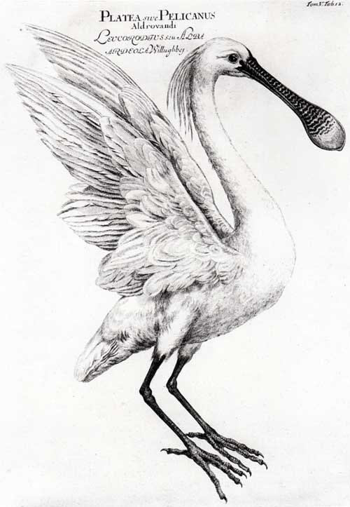 Drawing of an Eurasian Spoonbill (Platalea leucorodia) near lower Danube, done by Jacobus Houbraken after a drawing by the Italian artist Raimondo Manzini. Published in the 1726 work Danubius Pannonico-Mysicus by the Italian naturalist and soldier Luigi Ferdinando Marsigli (1658 – 1730).